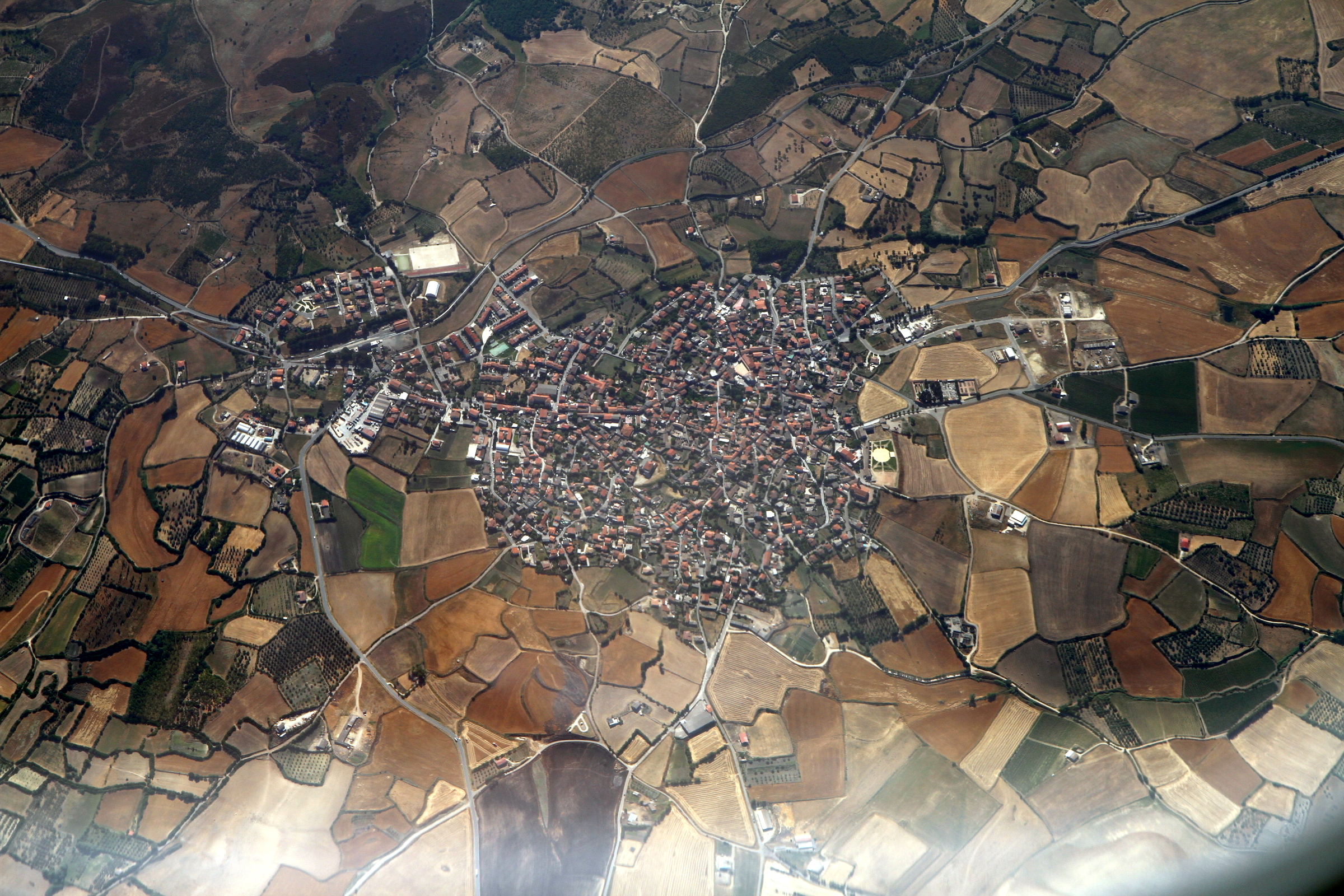 Aerial view of the town of Mandas, Sardinia, JUne 2012